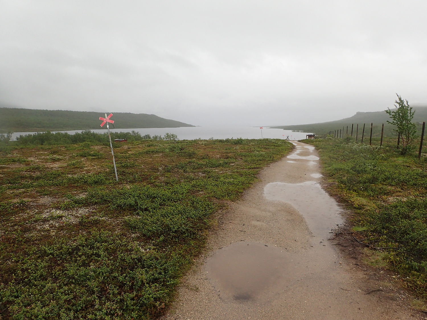 The path between Golddaluokta Bay in Lake Ylinen Kilpisjärvi and the three-country cairn.